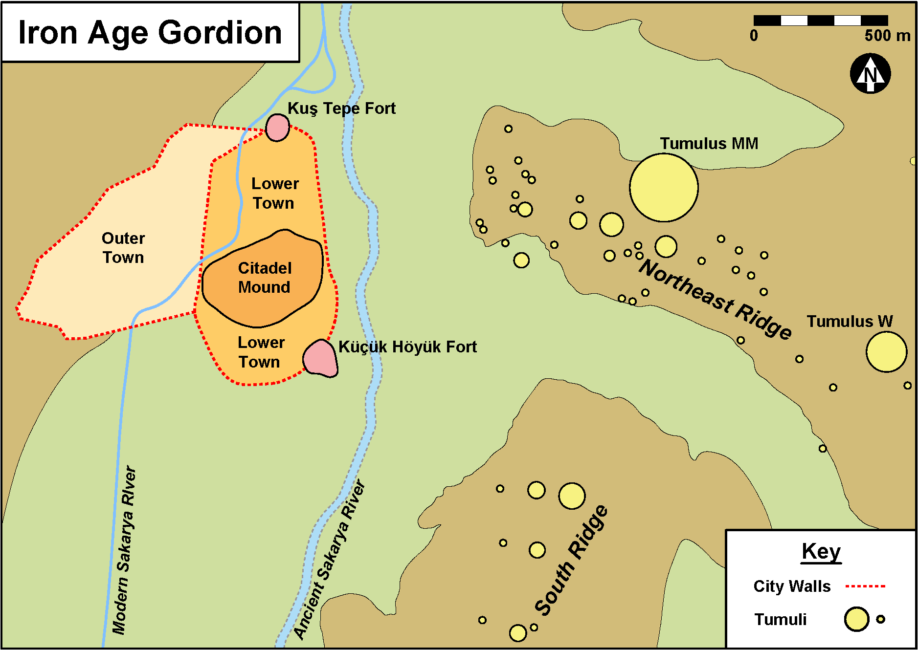 Map of Iron Age Gordion created by uploader based on Rose and Darbyshire 2011 fig. 0.1 and Rose 2017 fig. 9. Rose, C. Brian (2017). "Fieldwork at Phrygian Gordion, 2013-2015". American Journal of Archaeology. 121 (1): 135–178. Rose, C. Brian; Darbyshire, Gareth, eds. (2011). The New Chronology of Iron Age Gordion. Philadelphia: University of Pennsylvania Museum.